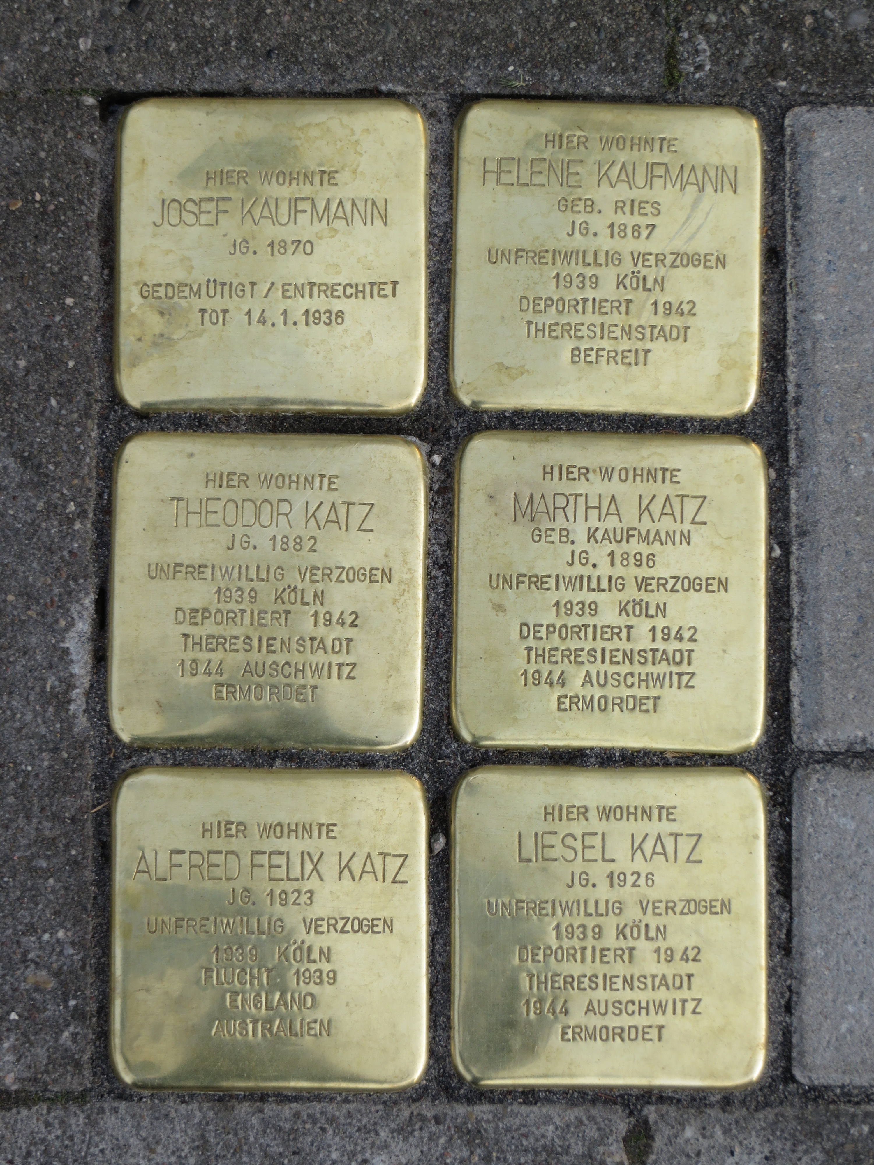 Stolpersteine at house Steinstraße 25 in Witten, Germany